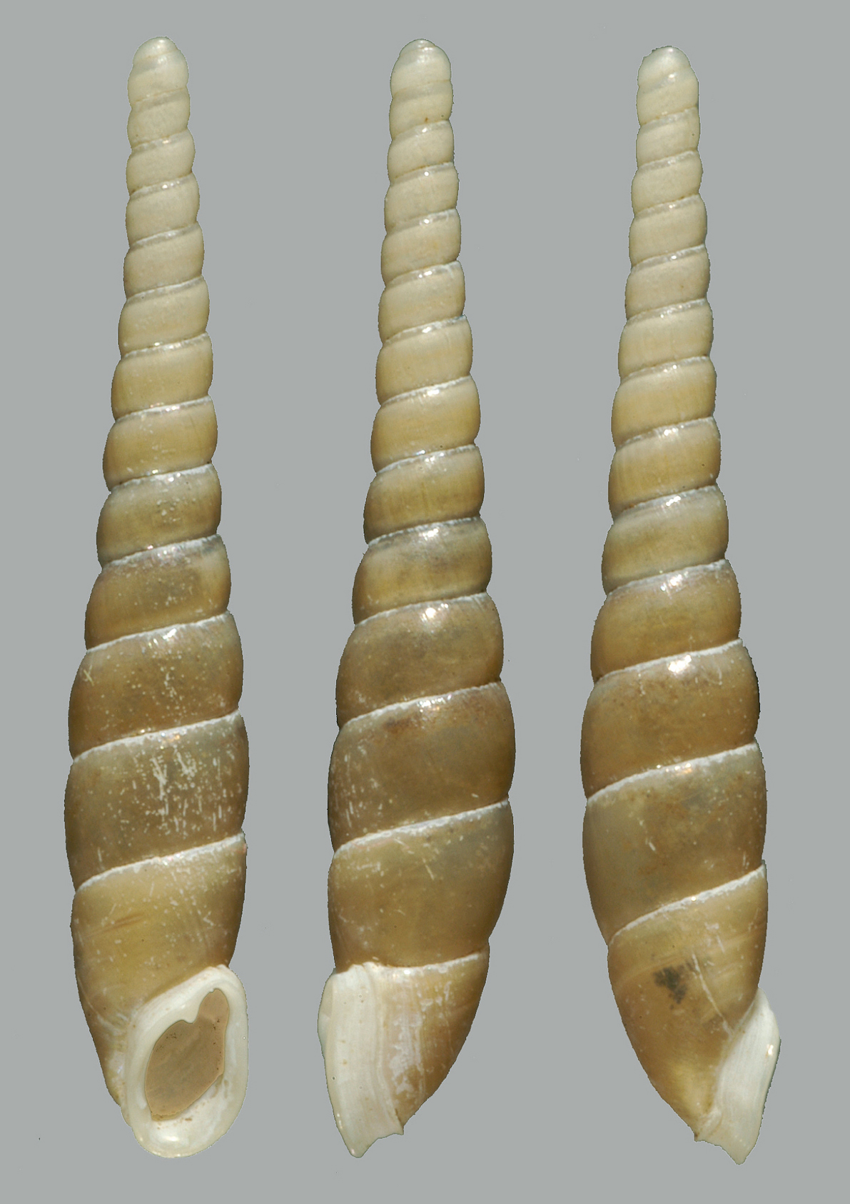 Holotype of Leptacme cuongi, holotype (RMNH 99273). Locality: Vietnam, Thanh Hoa Province, Pu Luong National Park, limestone hill near the native village Am, 20°27.39'N 105°13.65'E; 21.ix.2003. Actual height 13.0 mm.